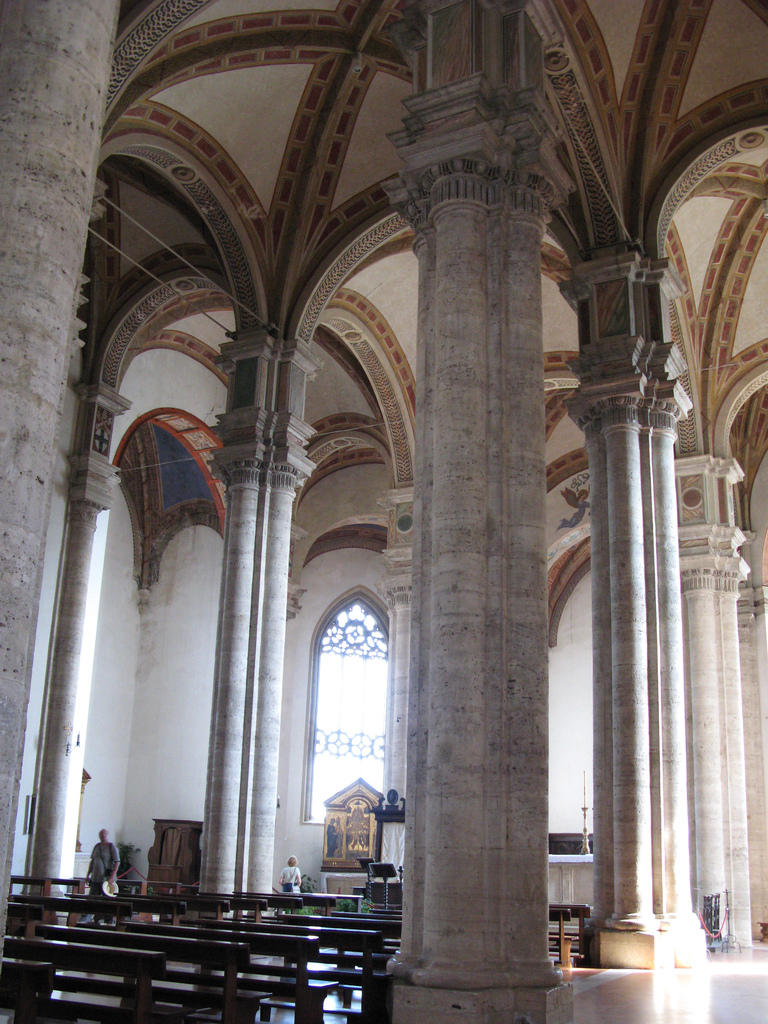 see abovesee above